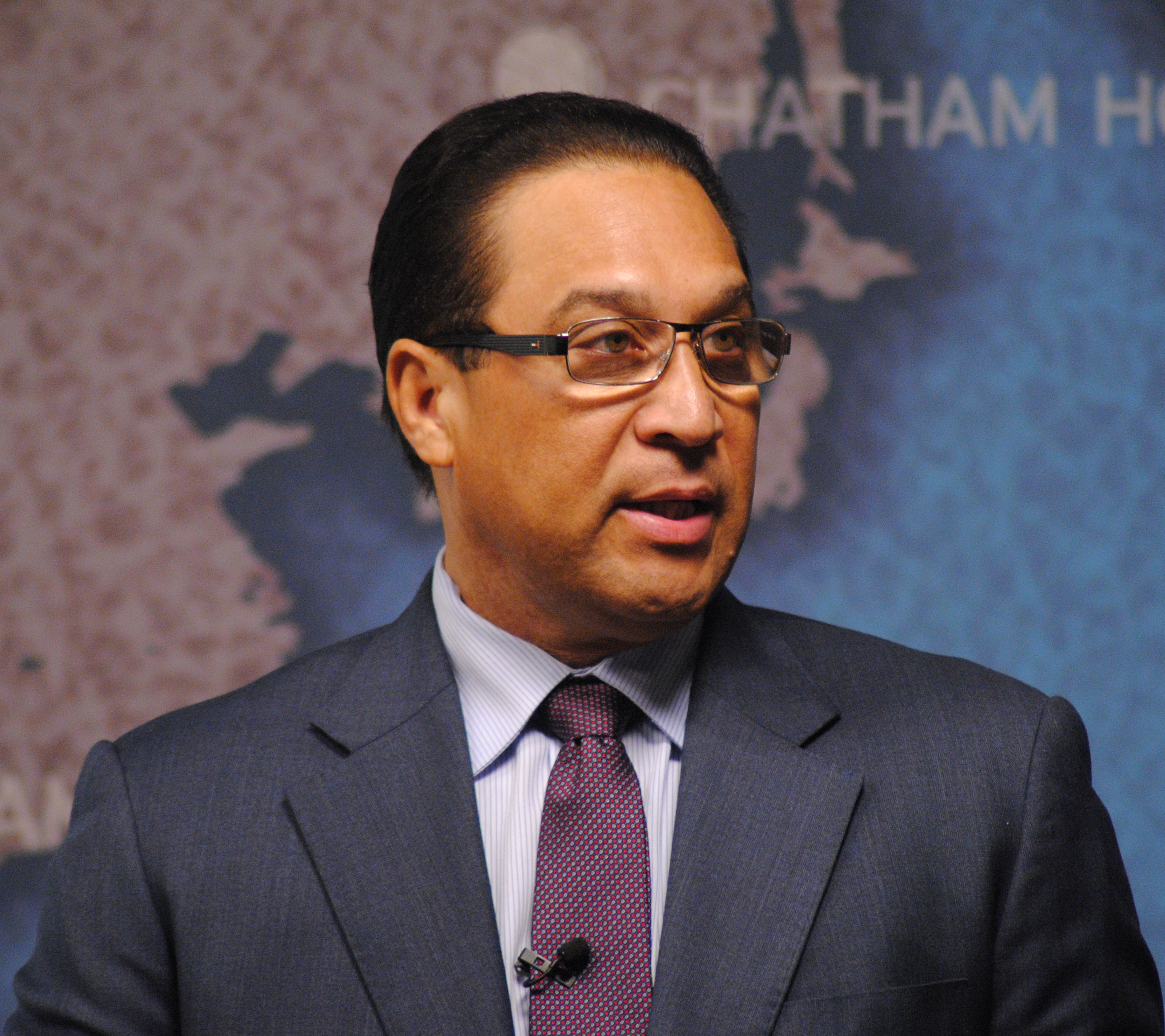 Combating Global Corruption: Shared Standards and Common Practice?, 4 February 2014, cht.hm/1cCI6en